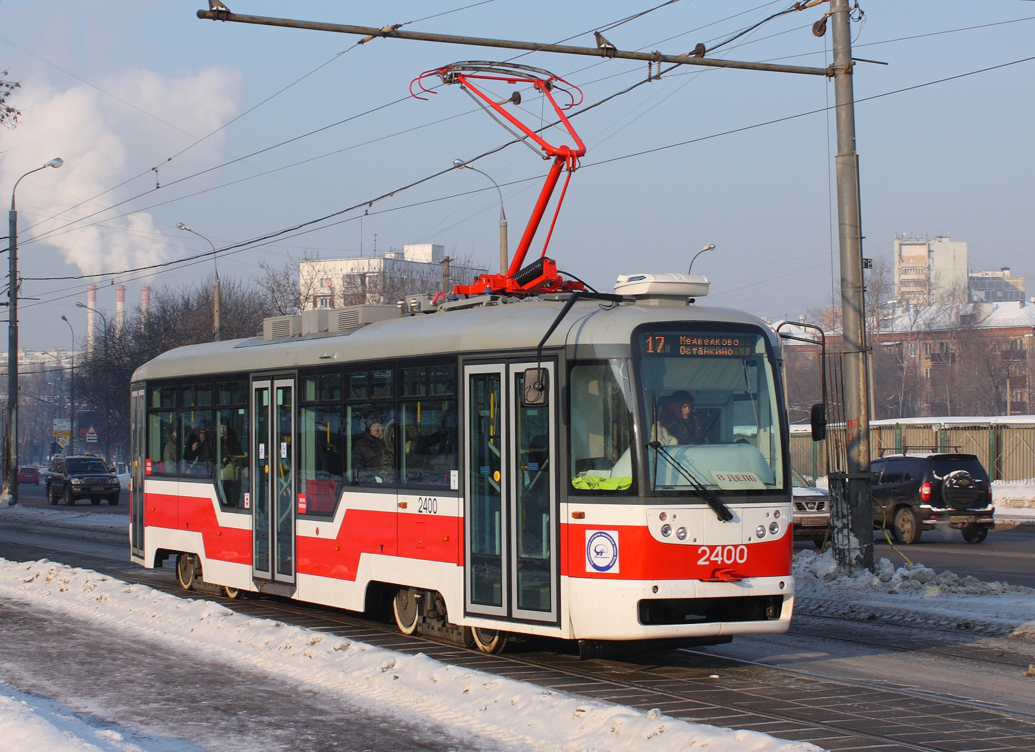 VarioLF tram # 2400 in Moscow on route 17.